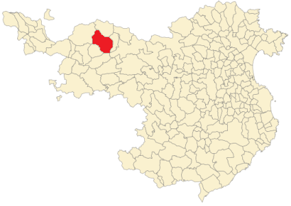 Villalonga de Ter